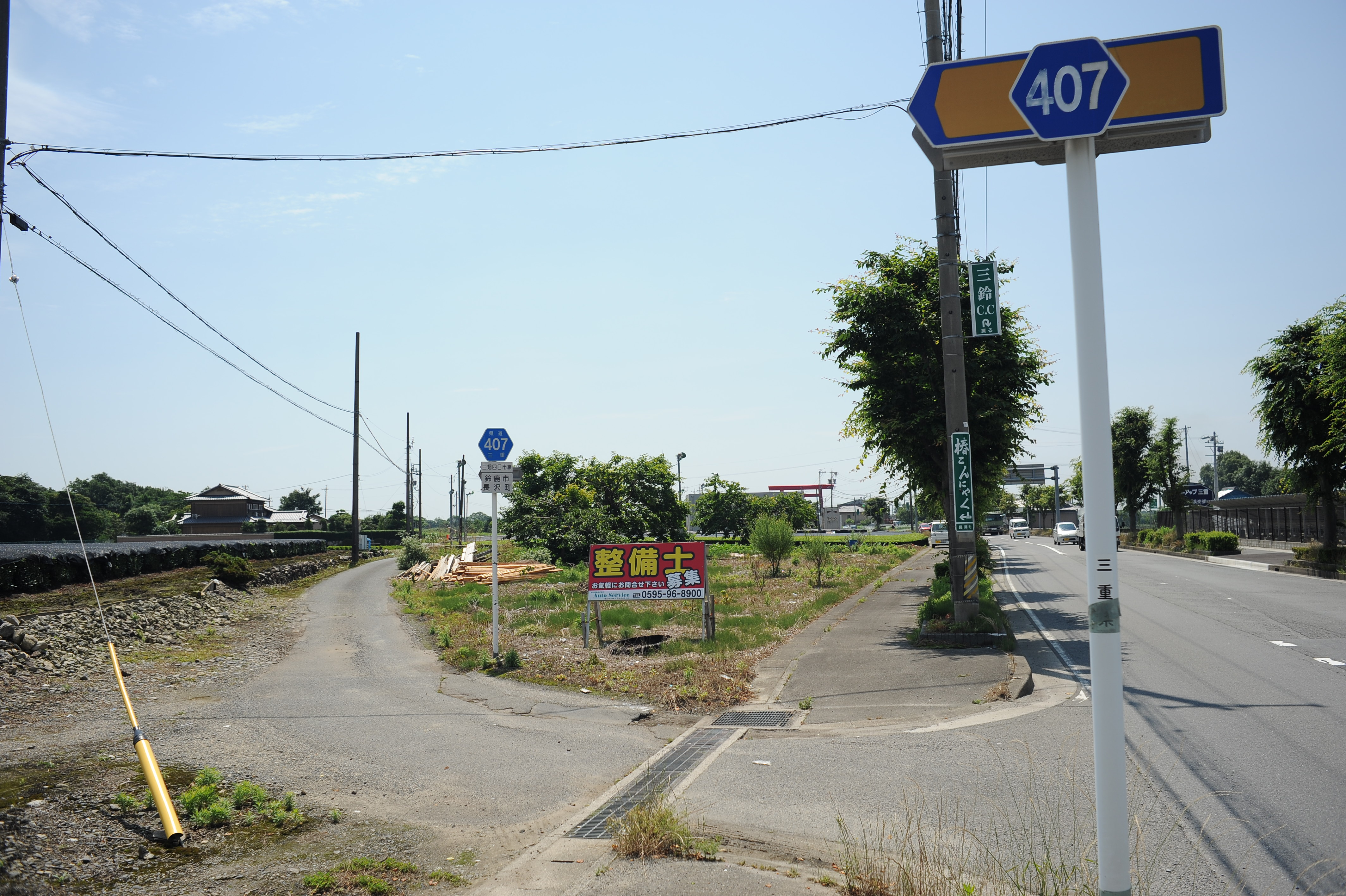 Mie Prefectural Route 407, Suzuka, Mie